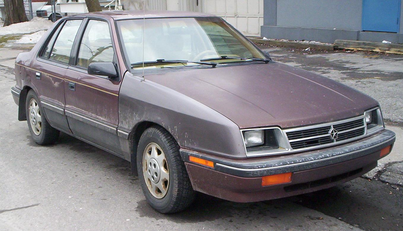 1987-1990 Dodge Shadow photographed in Montreal, Quebec, Canada.